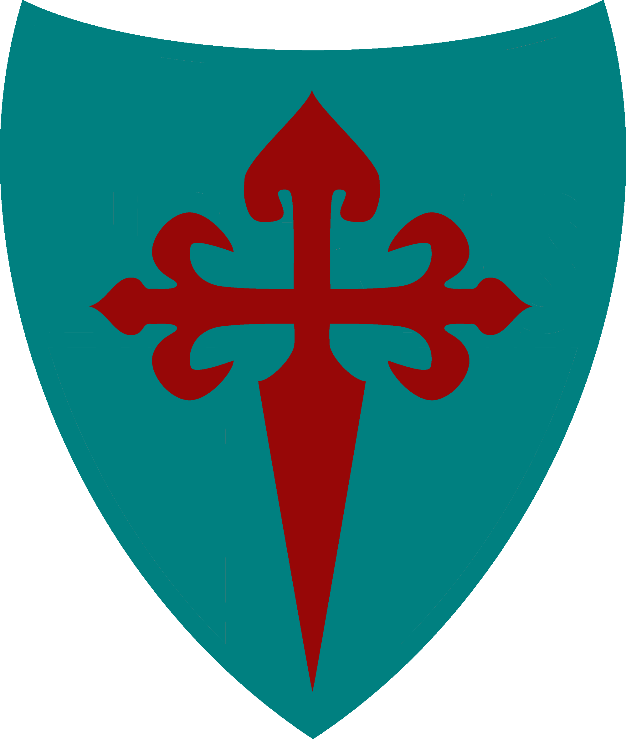 Emblem of the Spanish party Renovación Española